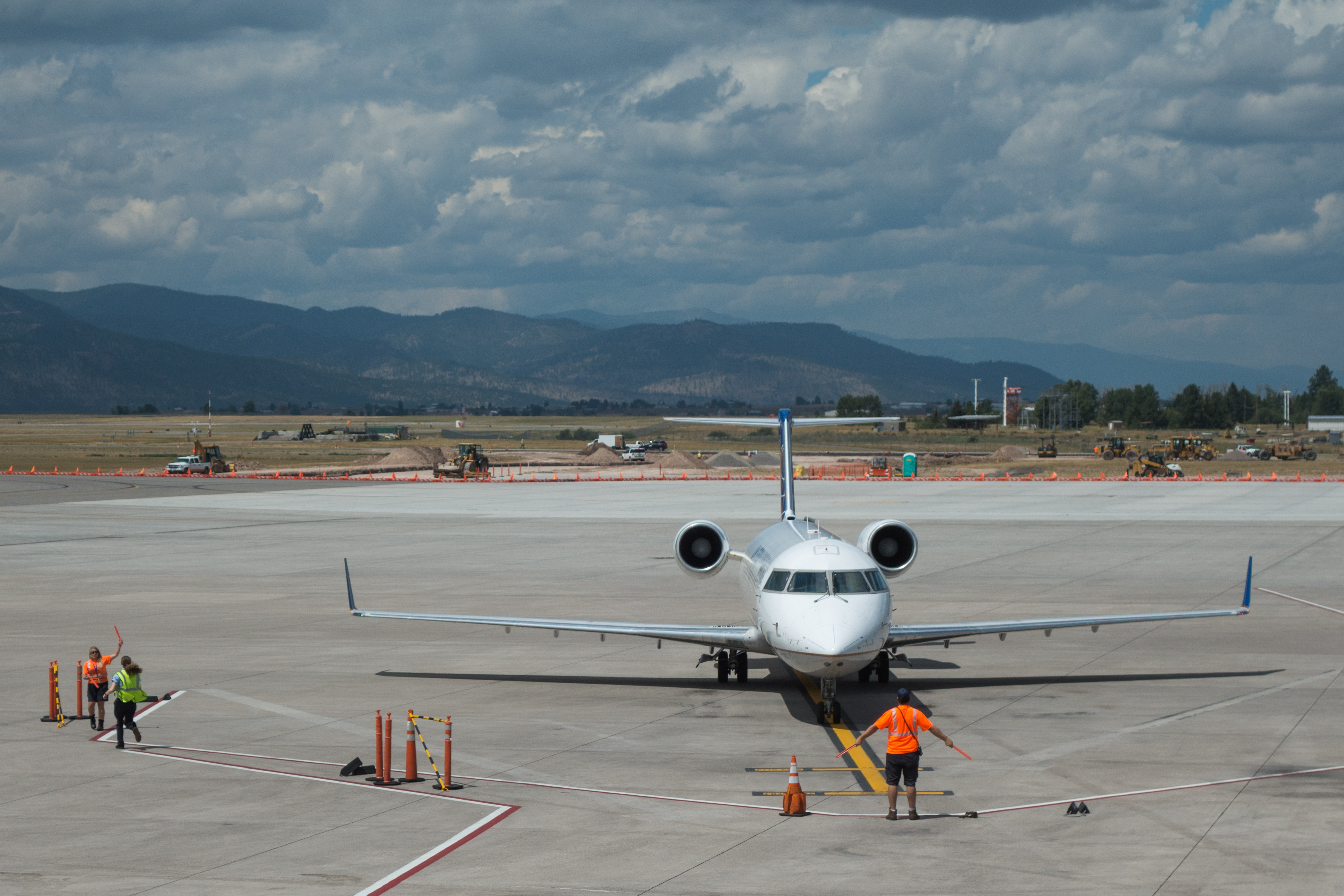 A SkyWest Airlines CRJ-200ER registered N701BR at Missoula International Airport, Montana, USA. Operating United Express Flight 6289 from San Francisco (SFO).